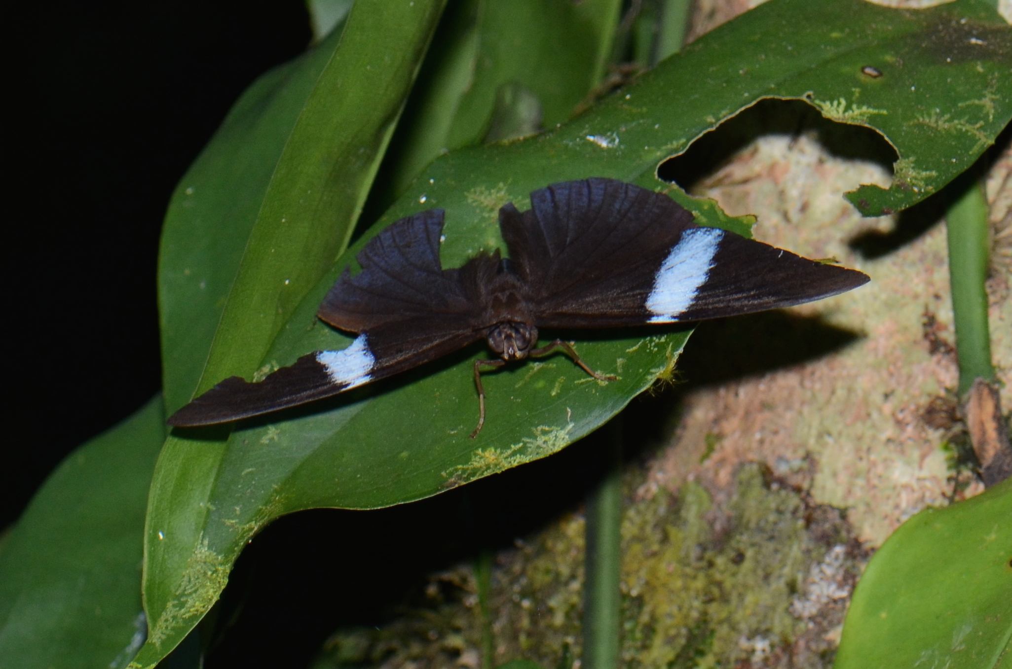 Thanks to Gerry for ID